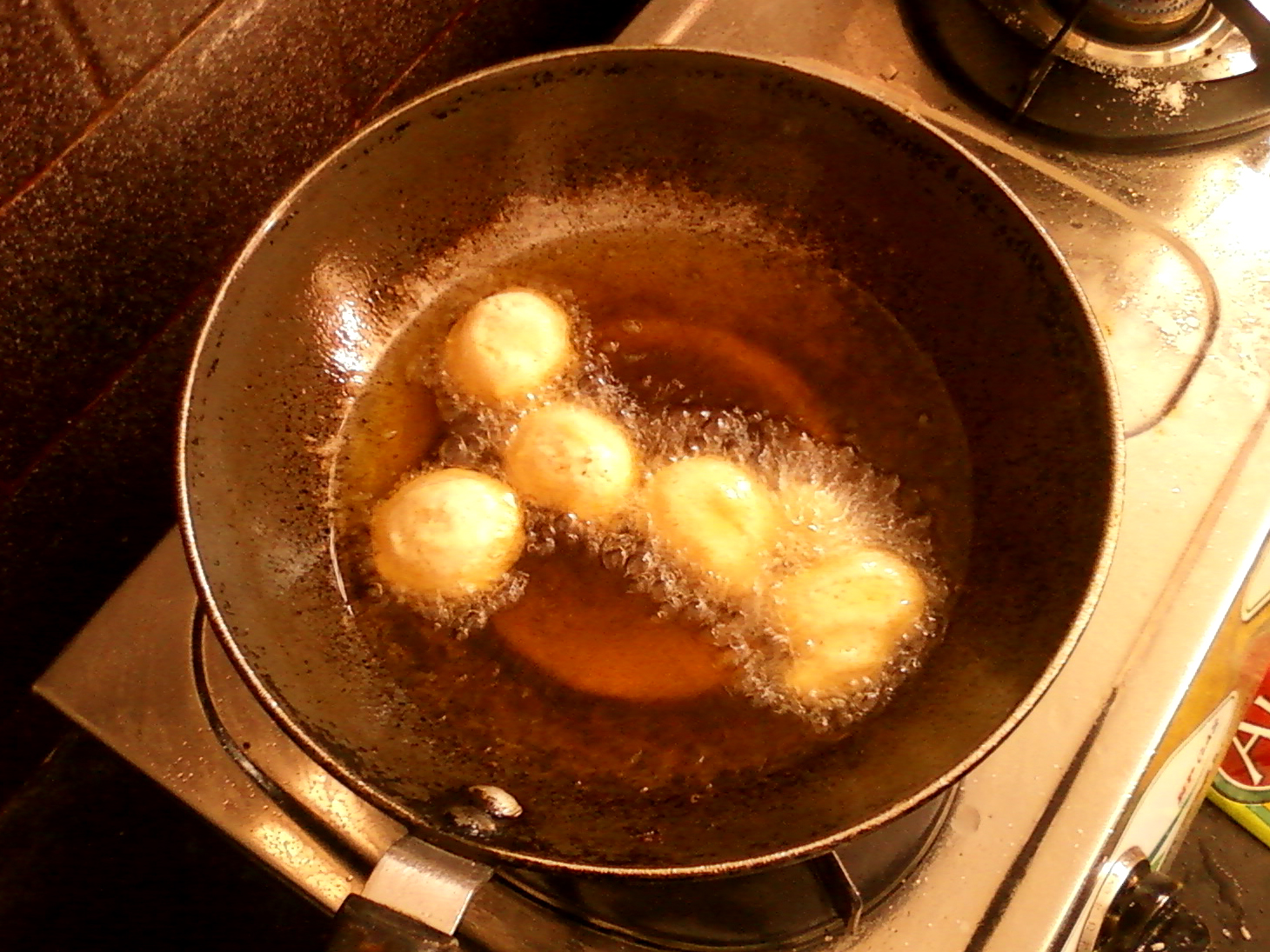 Cooking of Bondas in Thagarapuvalasa, Andhra Pradesh